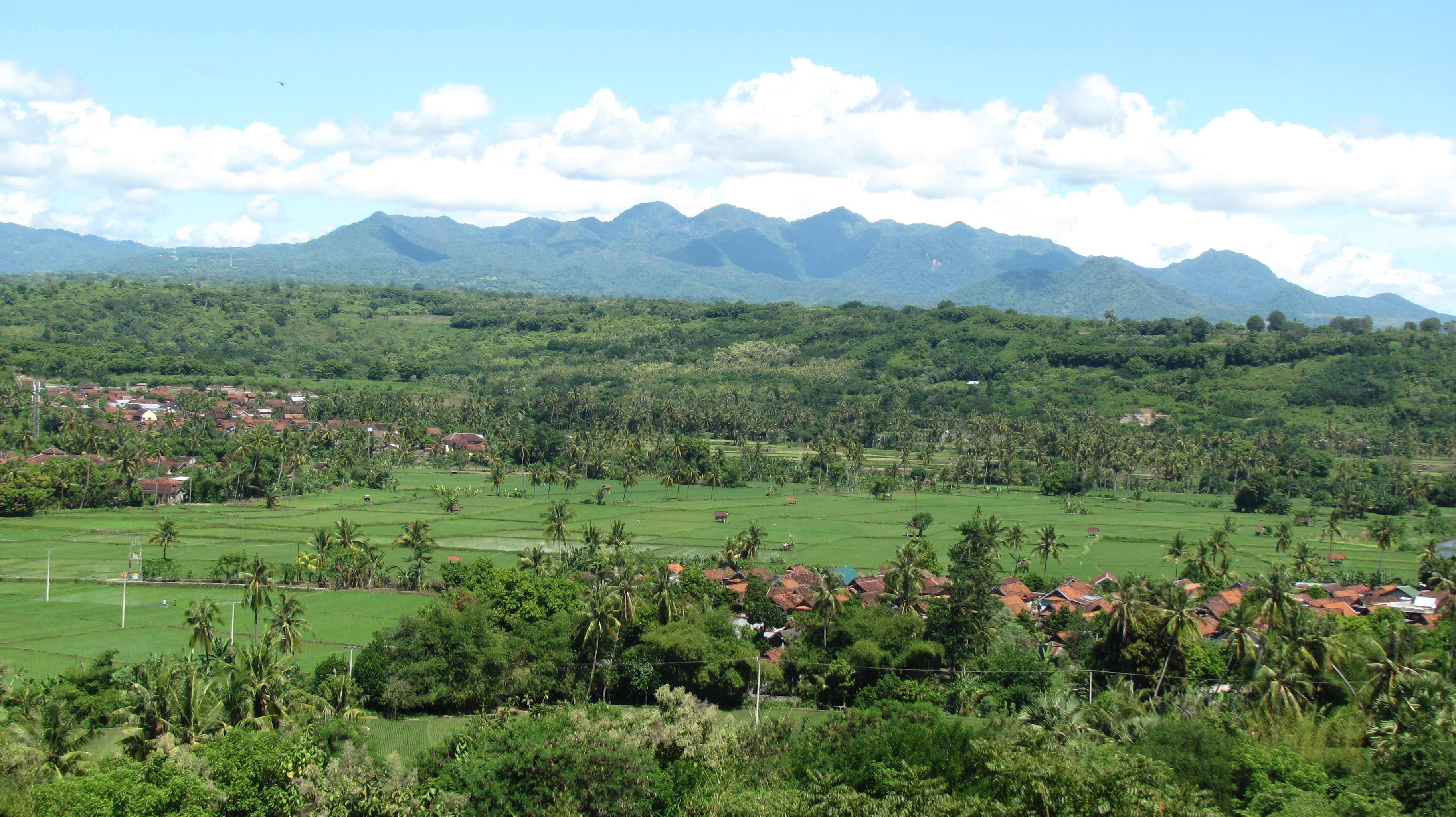 Paddy fields near Sumbawa Besar, Sumbawa, Indonesia